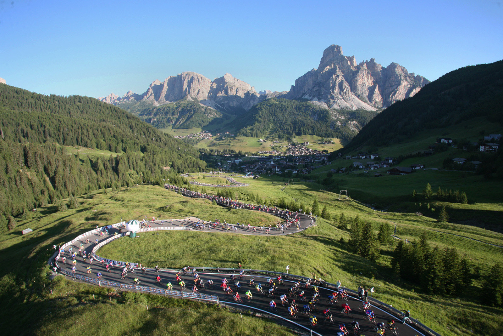 Maratona dles Dolomites 2006 edition ascent to Campolongo Pass - Picture provided by Maratona dles Dolomites Committee